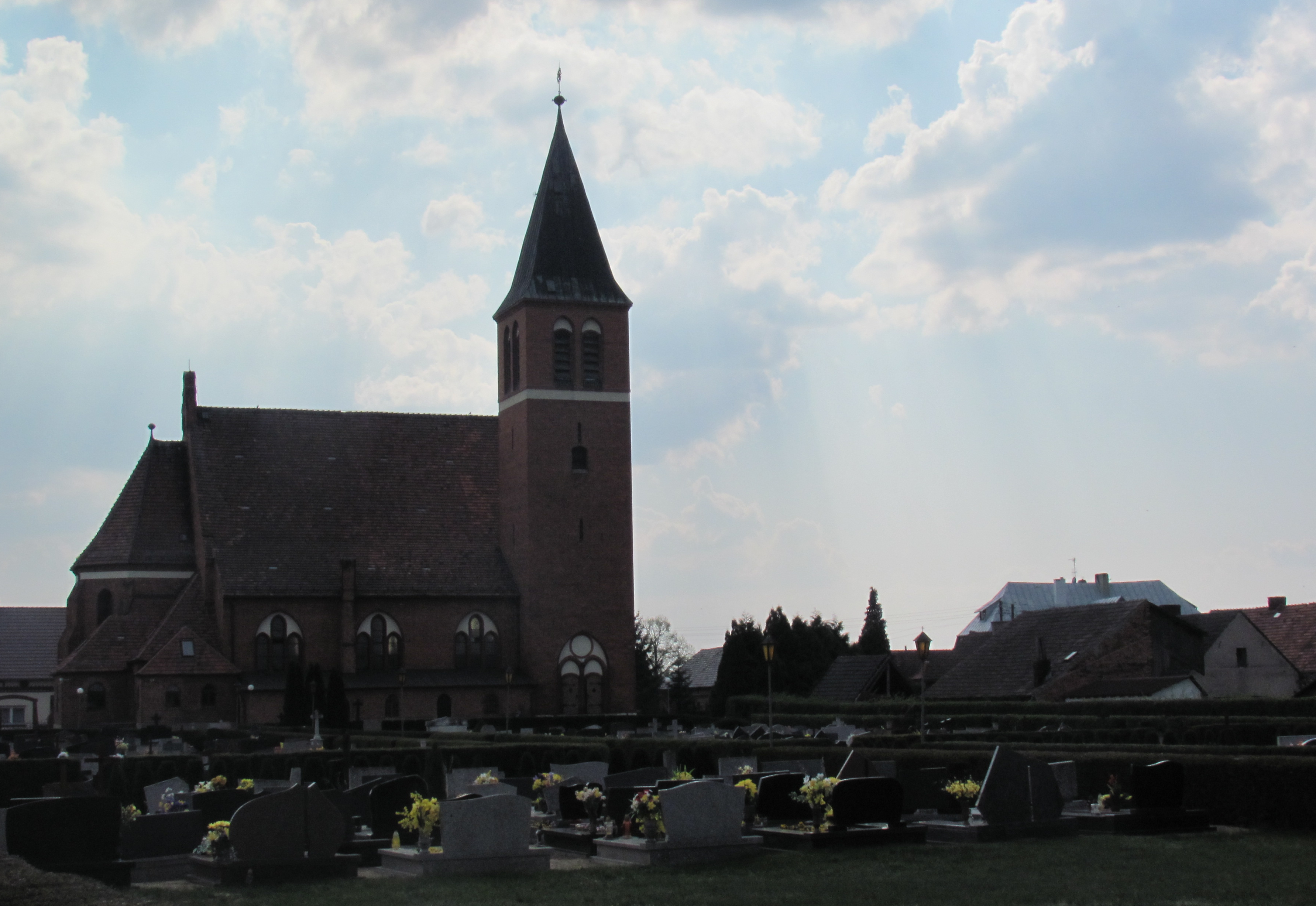 St. Stephen Church in Brynica seen from cemetery